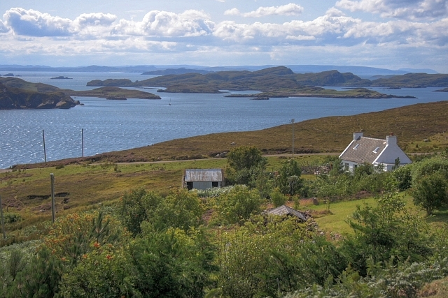 View of the Summer Isles From Polbain